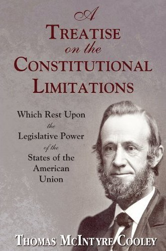 Book cover of Thomas McIntyre Cooley: A Treatise on the Law of Torts or the Wrongs Which Arise Independently of Contract.